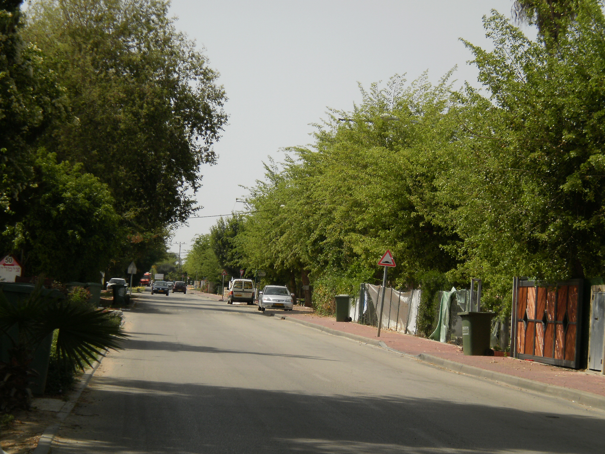 a street in Yashresh, moshav in Gezer Regional Council in the Shephelah, Israel